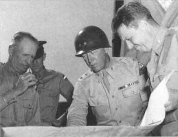 Major General George S. Patton Jr. (center) studies a map during World War II with General Lesley J. McNair (left), chief of staff of General Headquarters and later commanding general of U.S. Army Ground Forces